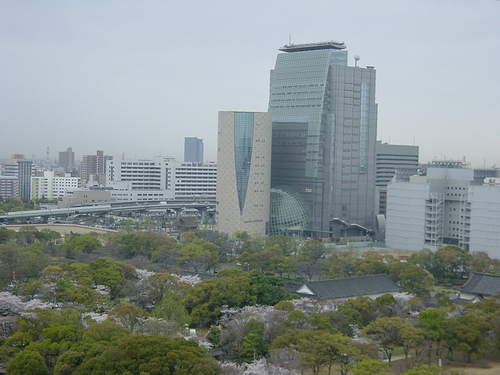 NHK à Osaka. What perfect timing to visit Osaka, the week of Cherry Blossom! Even better when we had some time to tour the Osaka Castle and its gardens. The Castle is also a historical museum for the region. History, a Castle, and Cherry Blossoms, what a great day!